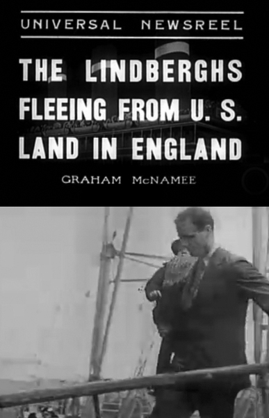 Charles Lindbergh and his 3-year old son, Jon, arriving in self exile at Liverpool, England on the United States Lines freighter S.S. American Importer, December 31, 1935. (Universal Newsreel)